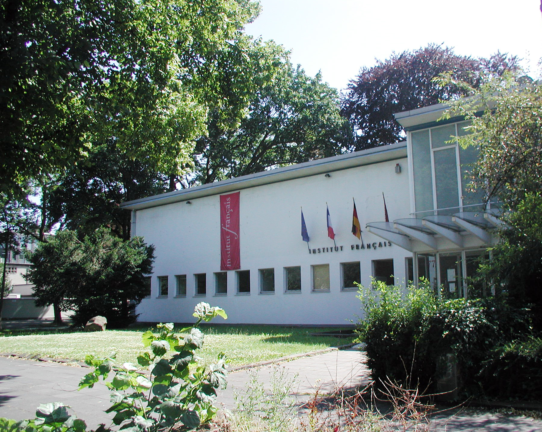 Cologne, Institut-Français - Sachsenring 77